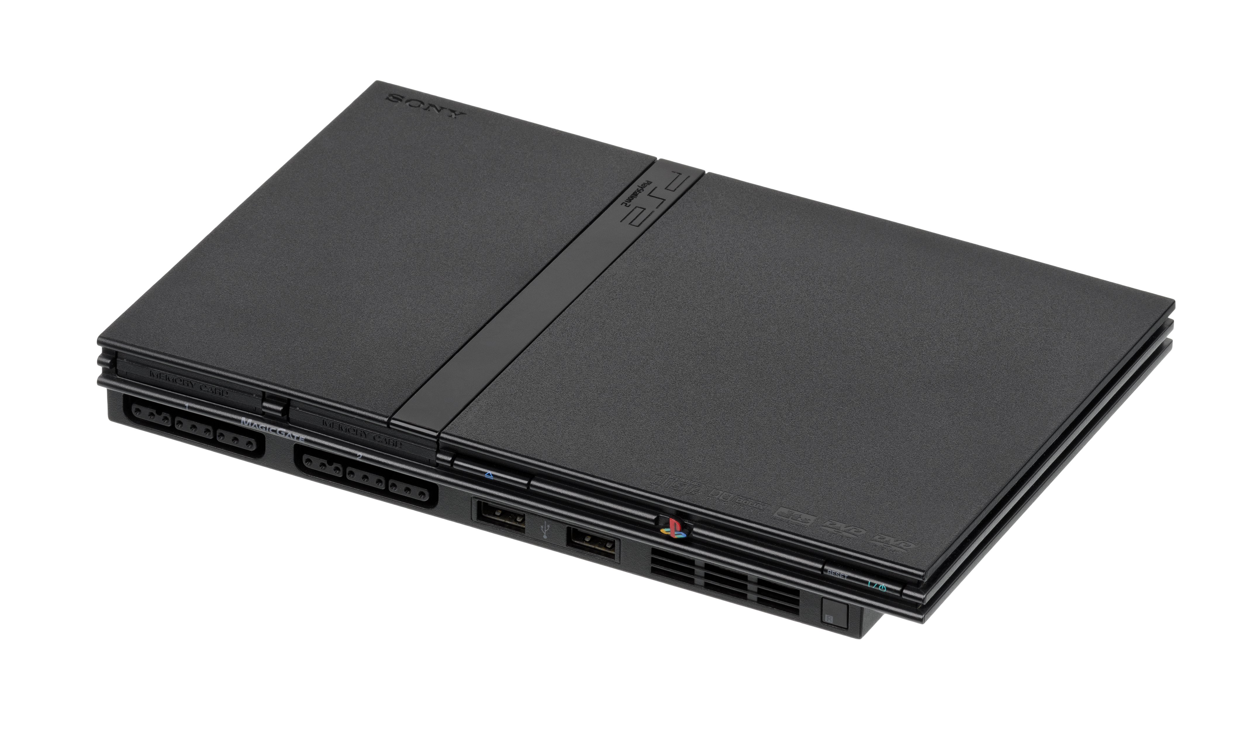 The Sony PlayStation 2 (also known as the "PS2") video game console, first released in 2000. The successor to the enormously successful PlayStation console, Sony's second system continued the trend and surpassed it to become the best-selling consoles of all time. This is a SCPH-70001 model, a version of the second model released (the "slim") that was drastically reduced in size and added a built-in broadband connection and removed the expansion bay.